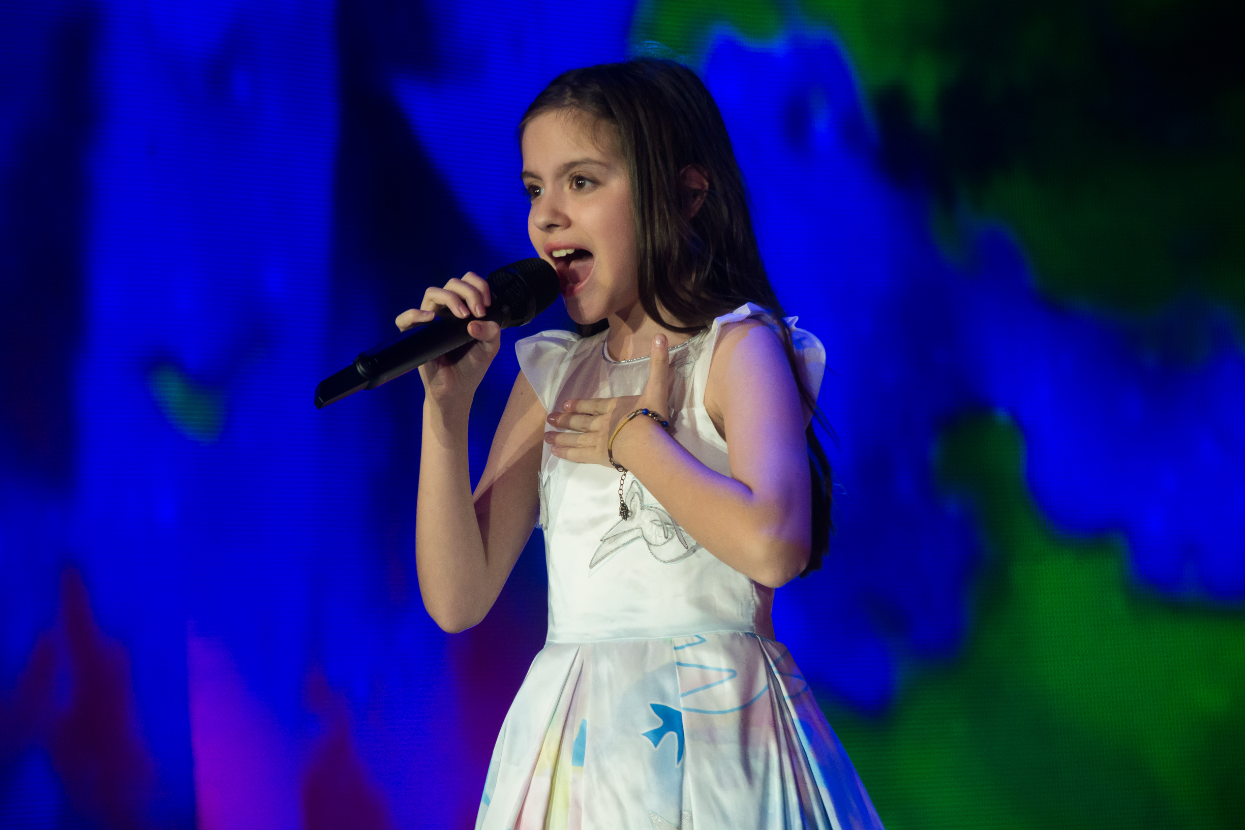 JESC 2016 participant: Lidia Ganeva (Bulgaria)